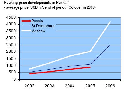 housing prices in russia